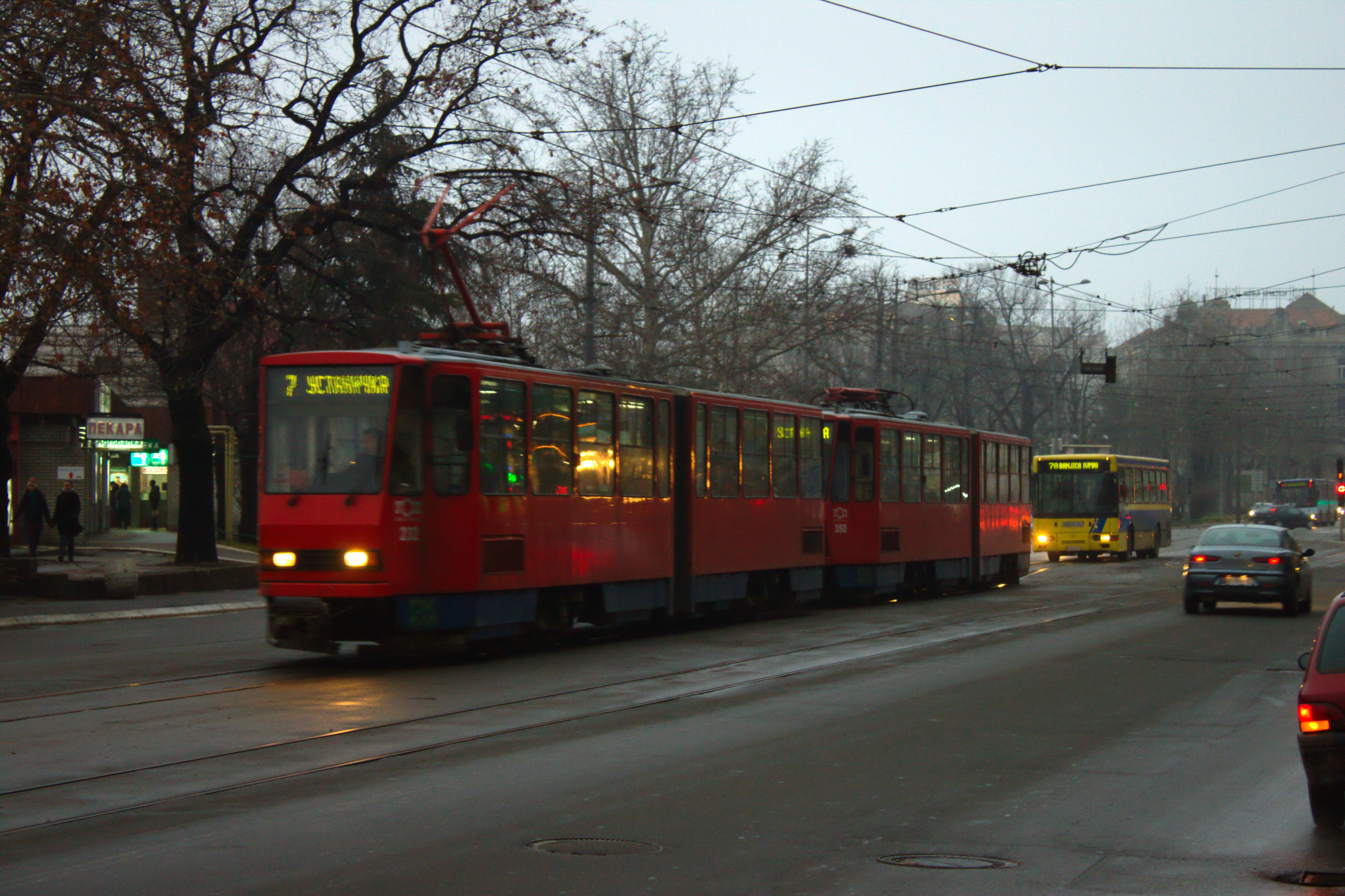 A tram on Karađorđeva street in Belgrade, Serbia